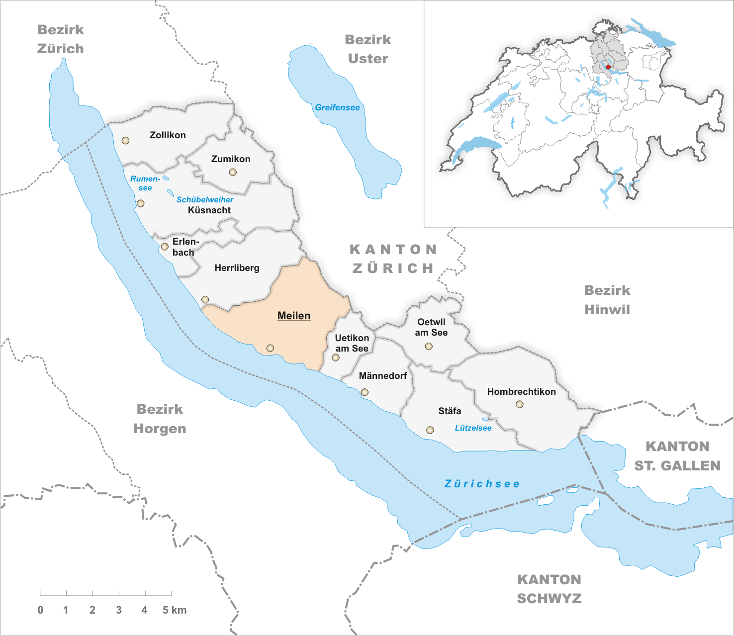 Municipality Meilen